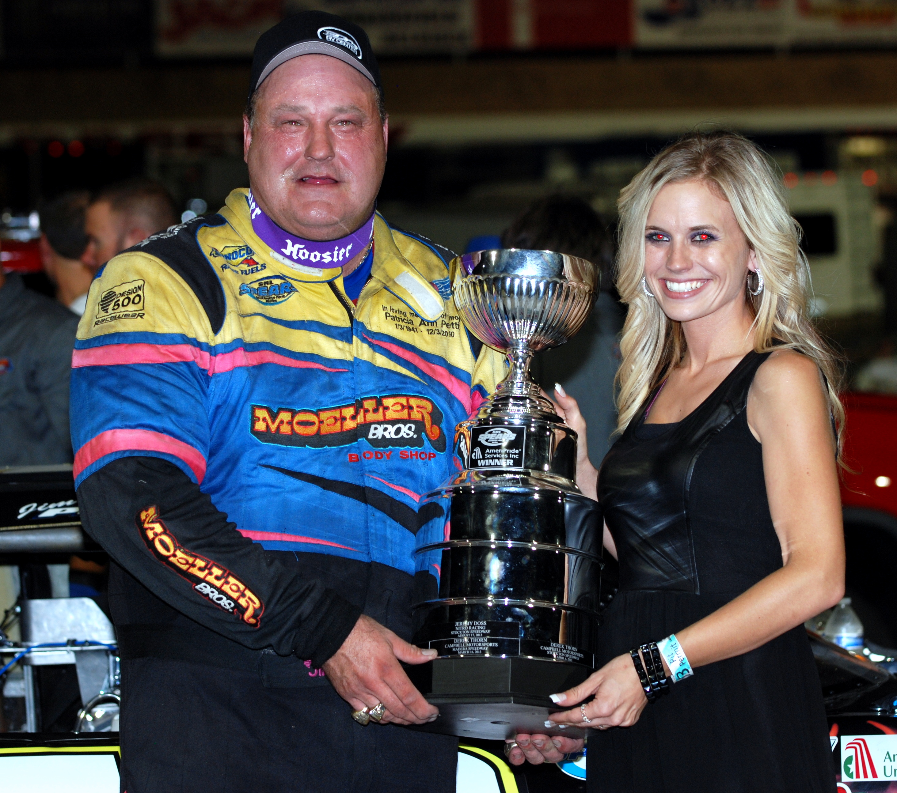 Jim Pettit II